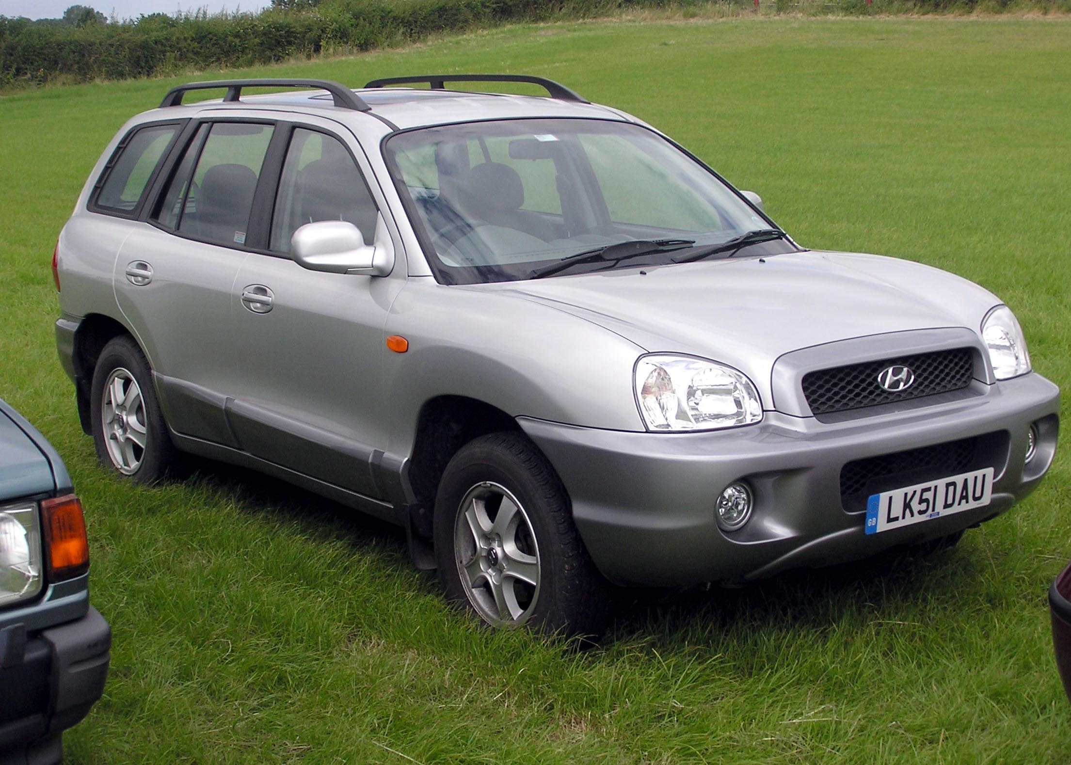 2001 Hyundai Santa Fe at Coalpit Heath car show, near Bristol, England. Taken by Adrian Pingstone in July 2004 and released to the public domain. This work has been released into the public domain by its author, Arpingstone. This applies worldwide. In some countries this may not be legally possible; if so: Arpingstone grants anyone the right to use this work for any purpose, without any conditions, unless such conditions are required by law.